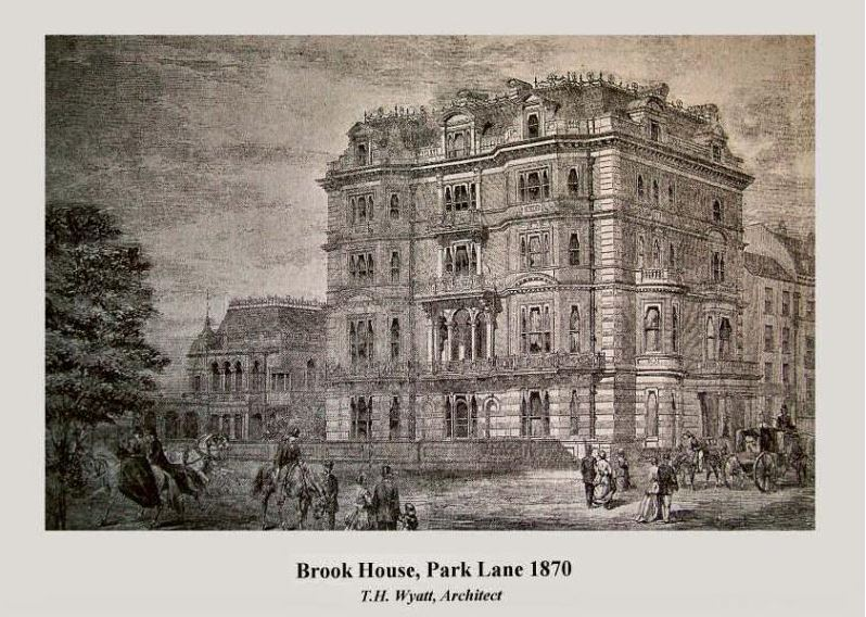 Brook House 113 Park Lane in Mayfair, London as it appeared in 1870, before its demolition and reconstruction of 1933